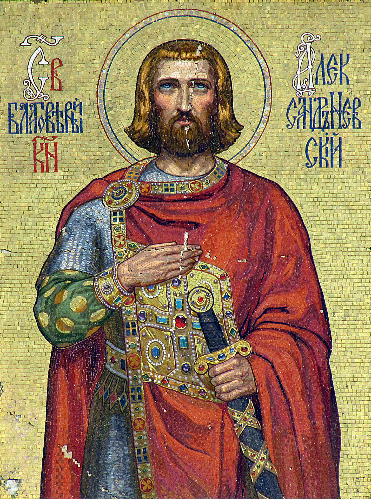 Mosaic of Nevsky on the Alexander Nevsky Cathedral, Sofia